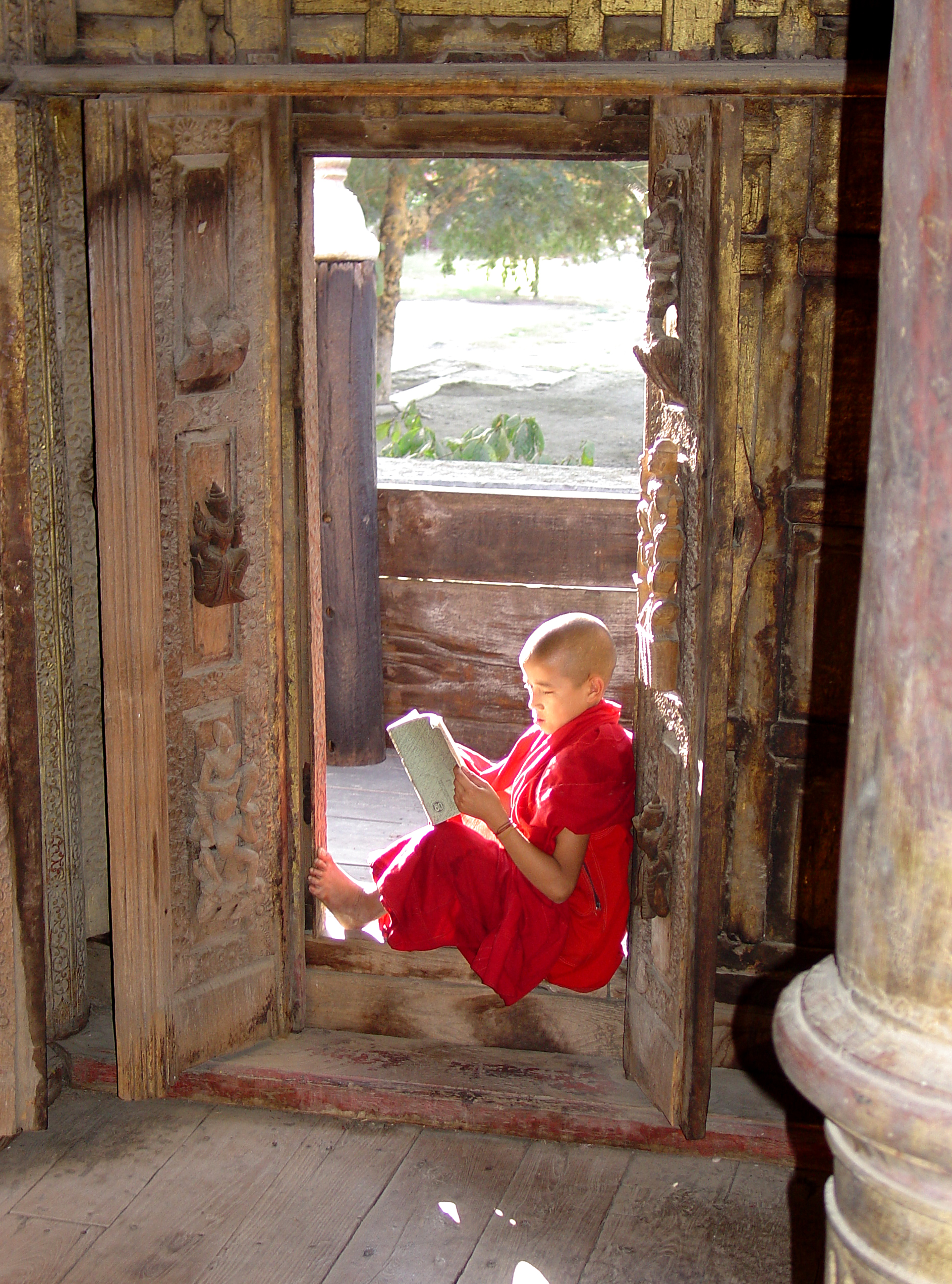 Children in Southeast Asia can join monasteries for varying lengths of time, during which they receive basic education as well as religious instruction. Actual monastic vows are not taken by the children. It is typical for every male in Southeast Asia to enter a monastery for a while, either as a child or as an adult, but relatively few go on to become full-time monks. There are also a few Buddhist nuns, although monasticism is not nearly as well-accepted for females as it is for males.